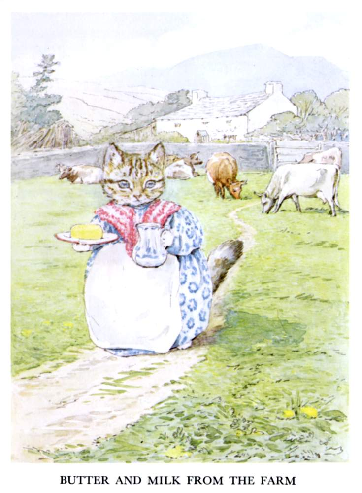 Illustration from The Tale of the Pie and the Patty-Pan